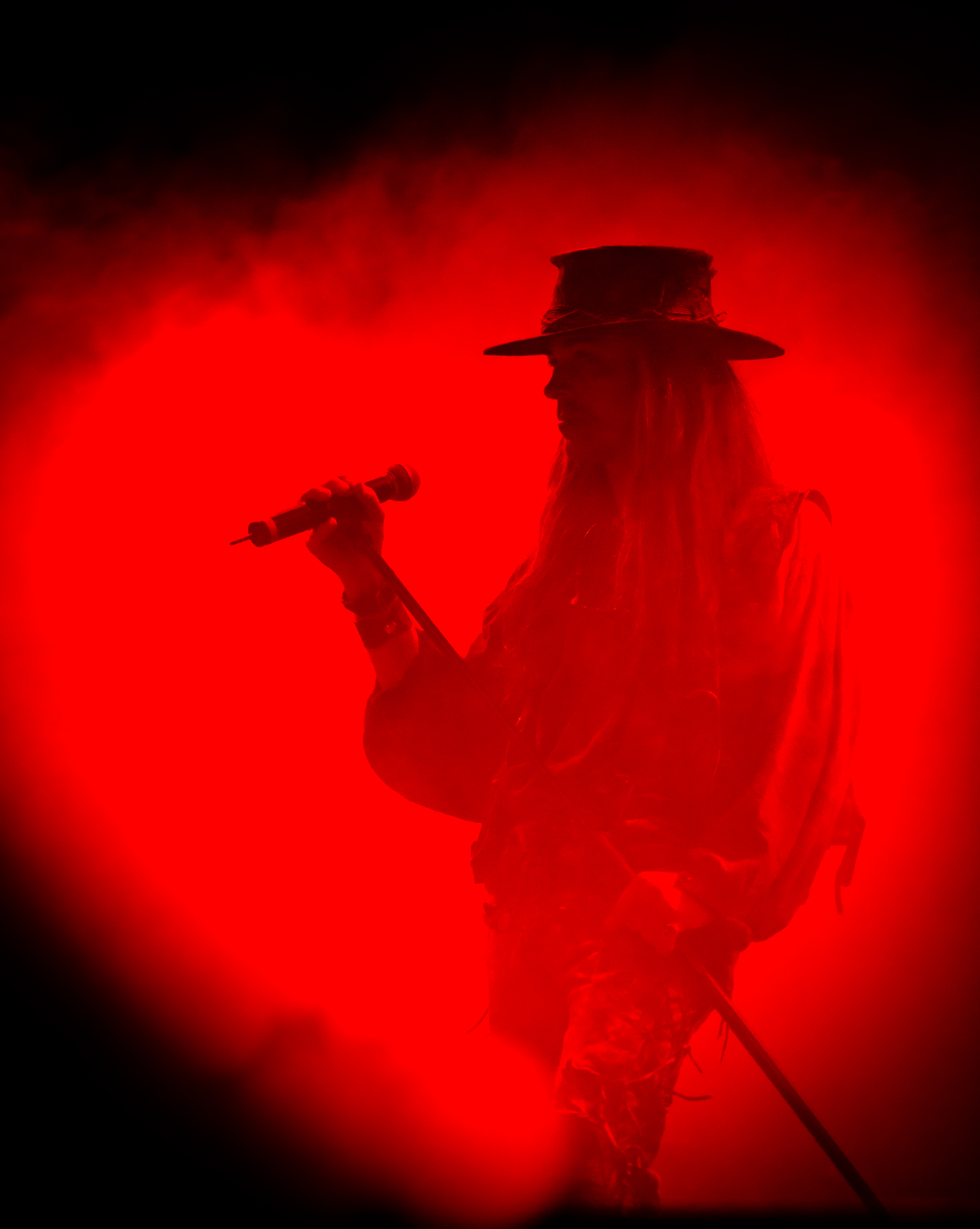 Taken at the Wave Gotik Treffen festival, Leipzig, Germany, June 2011 Bands included are: Das Ich, Love Like Blood, Dornenreich, Lake of Tears, Tiamat, Killing Joke, Fields Of The Nephilim, Coppelius, Medievel Babes, Eluveitie